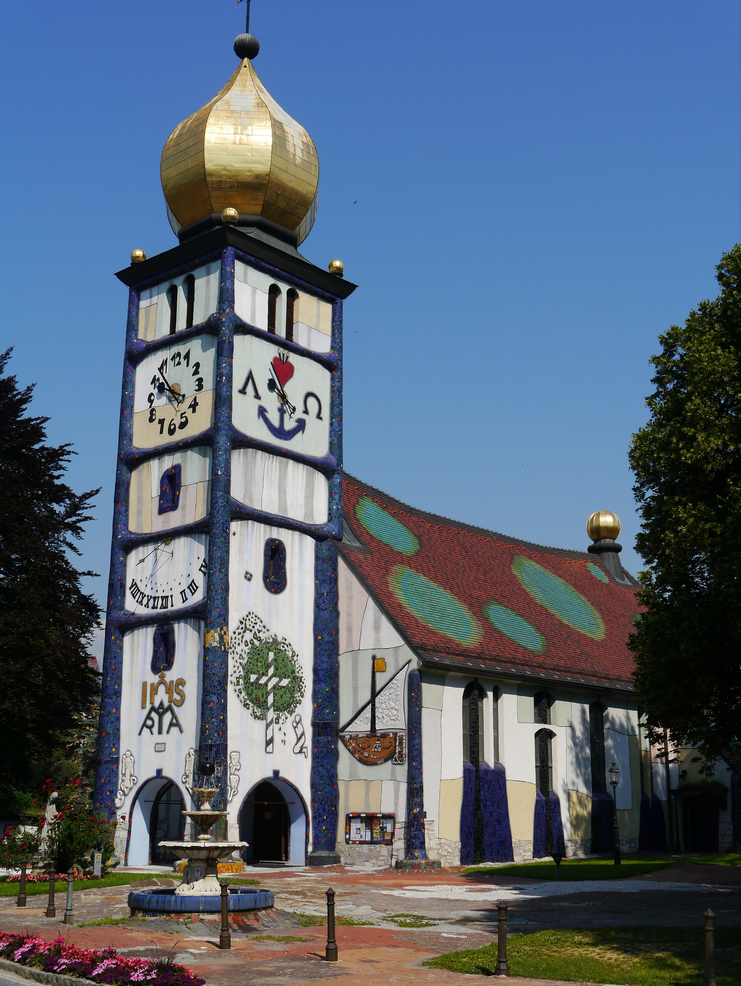 Hundertwasser Church St. Barbara, Bärnbach, Styria